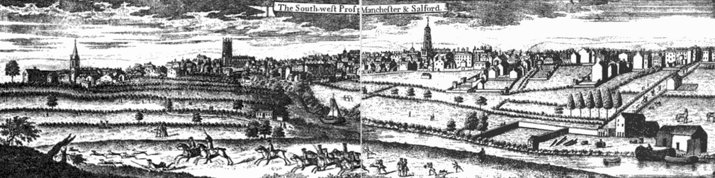 Panoramic view of Manchester (England) in 1746.